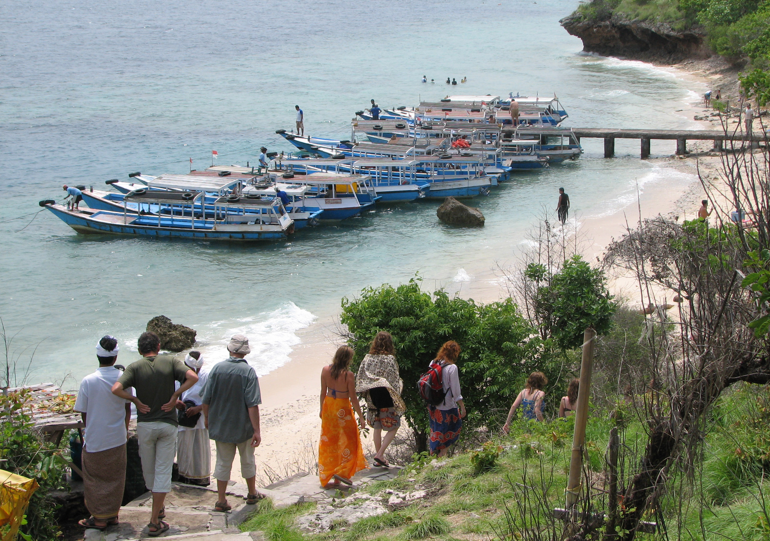 Uninhabited Menjangan Island, near from Bali (Indonesia)